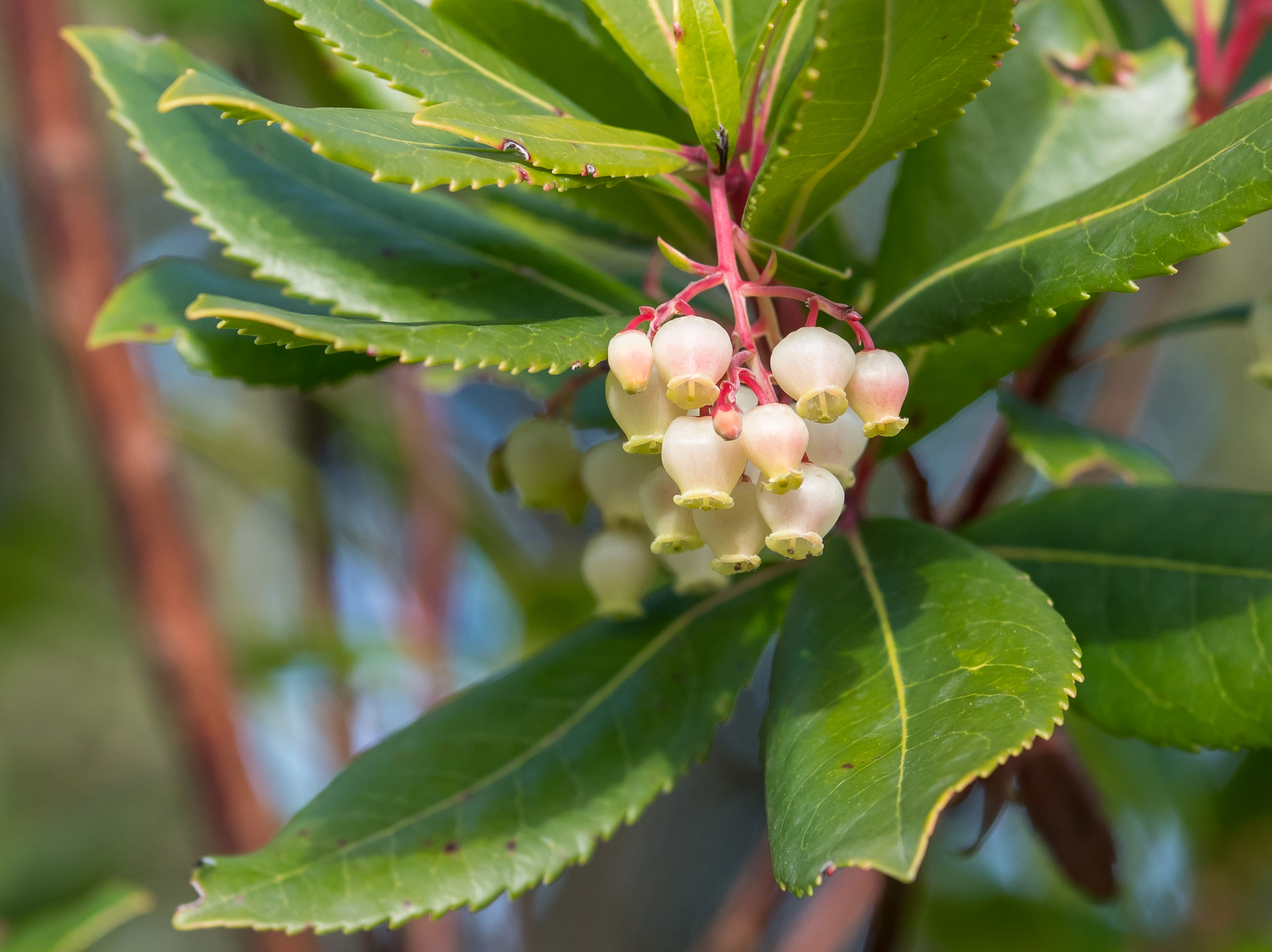 Flowers of the strawberry tree (Arbutus unedo) at the Goros gorge, Badaia mountain range. Basque Country, Spain